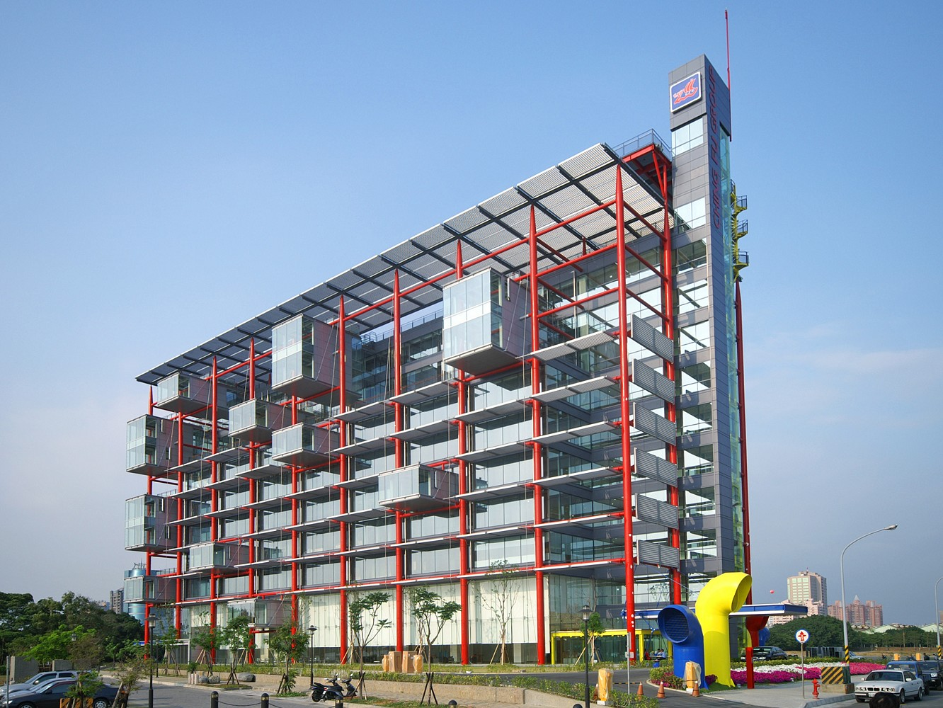 Ching Fu corporate headquarters, Kaohsiung, Republic of China (Taiwan)